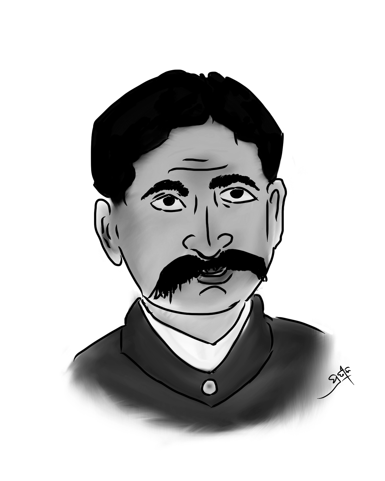 A modern painting of Odia Poet Gangadhar Meher based on popular conception of the poet. Created using Procreate for iOS. ଓଡ଼ିଆ: ସ୍ୱଭାବ କବି ଗଙ୍ଗାଧର ମେହେରଙ୍କ ଏକ ଚିତ୍ର। Procreate(iOS) ଆପ ଦ୍ୱାରା ଚିତ୍ରିତ ।